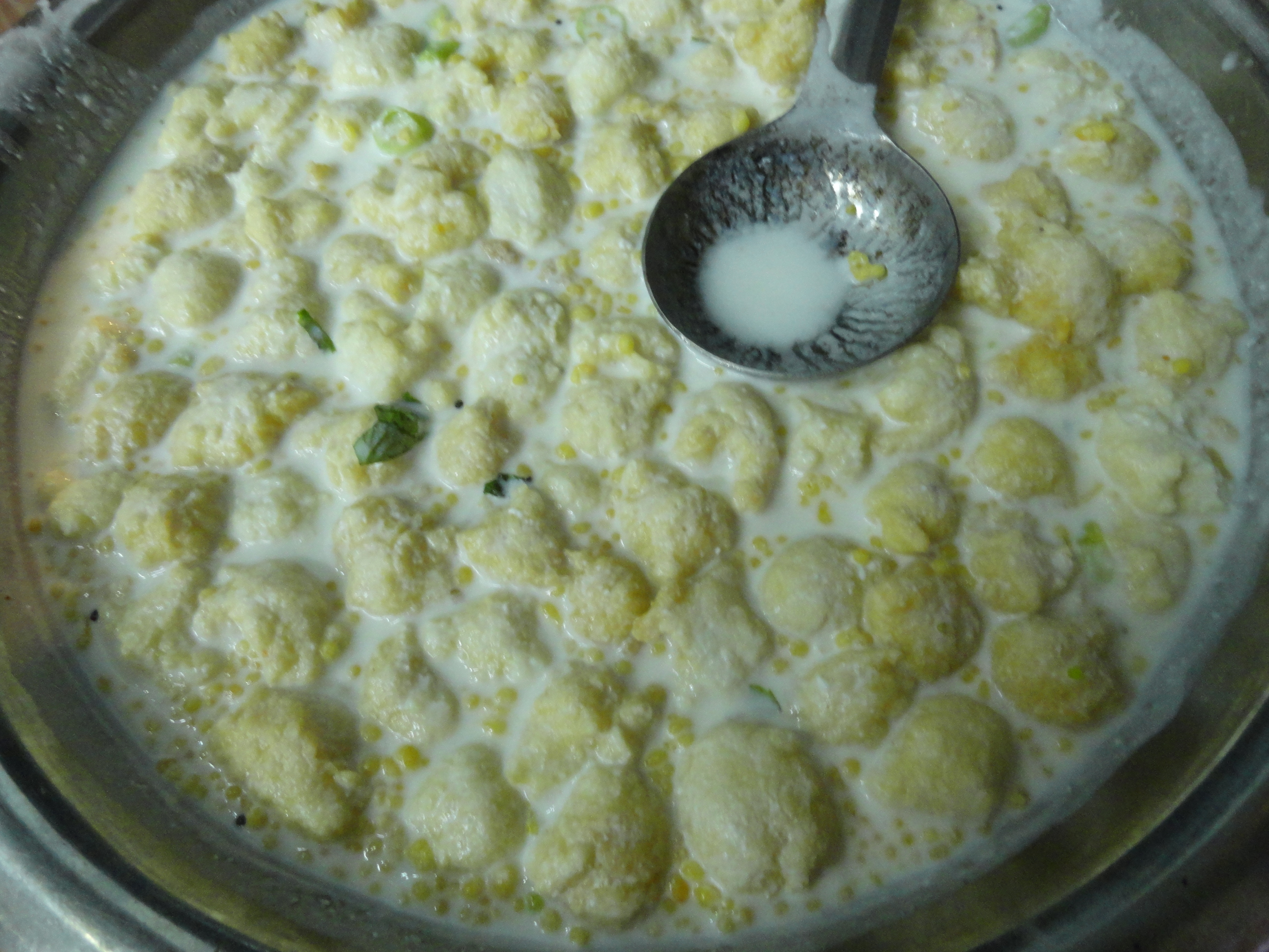 ధై వడ. curd vaDa